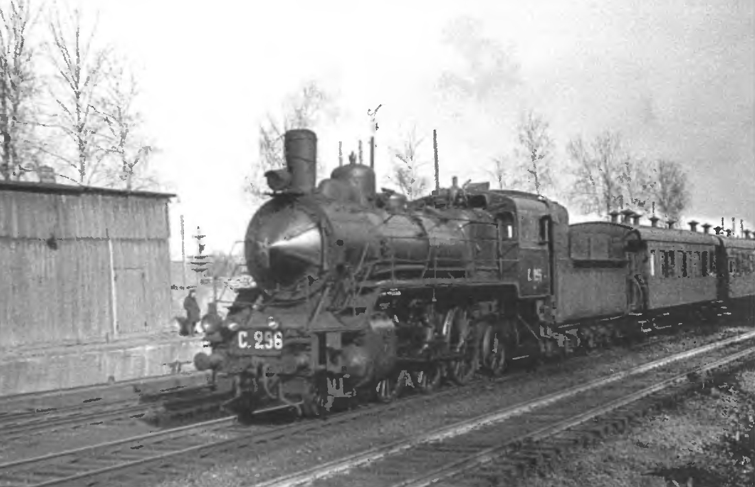 S class steam locomotive moving a suburban train. Skhodnya station